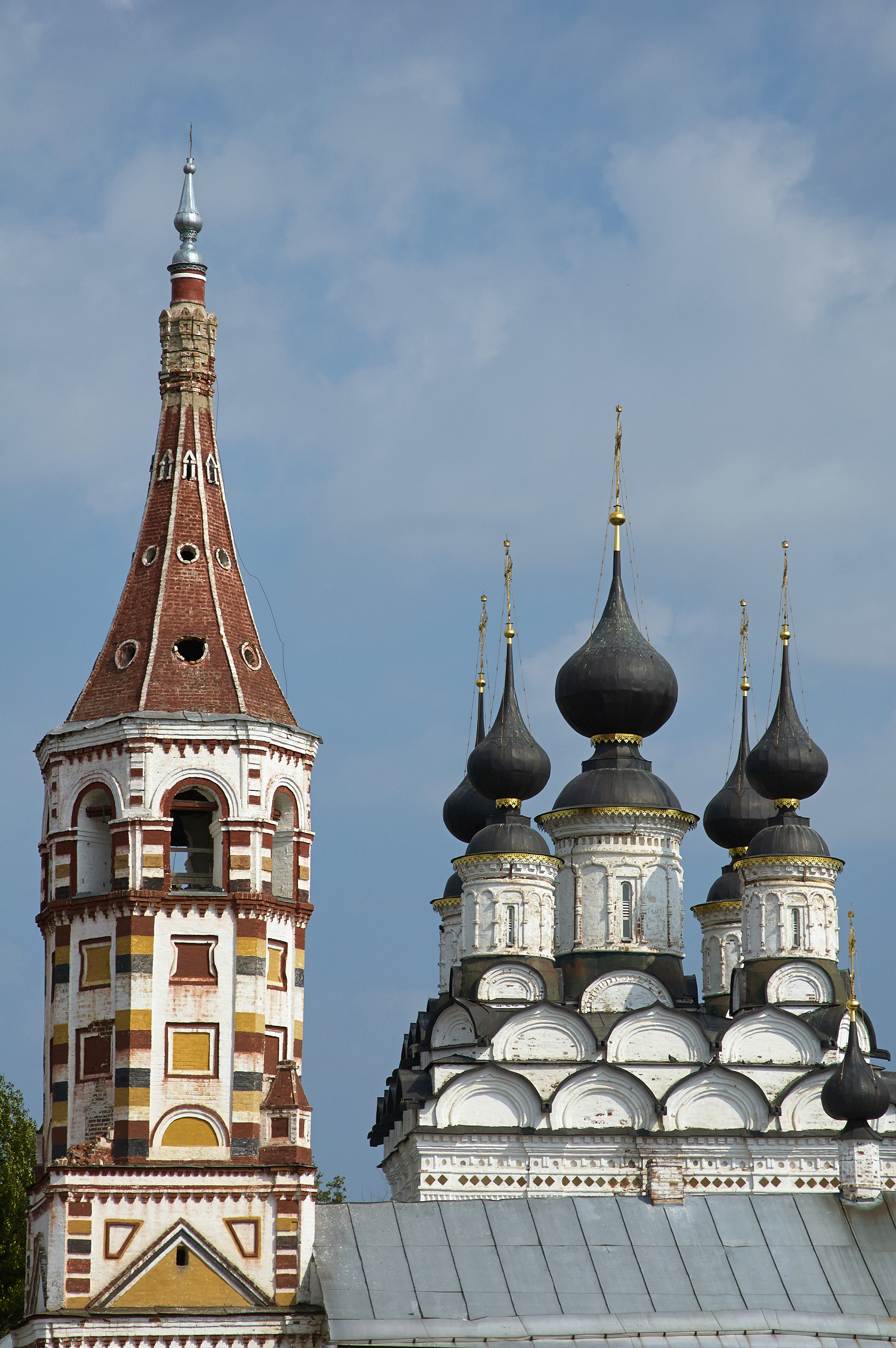 Church of Antipia and Lazarevskaya Church - Suzdal